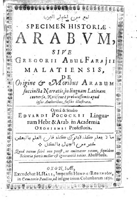 title: Gregorii Abul-Farajii , the 8th page